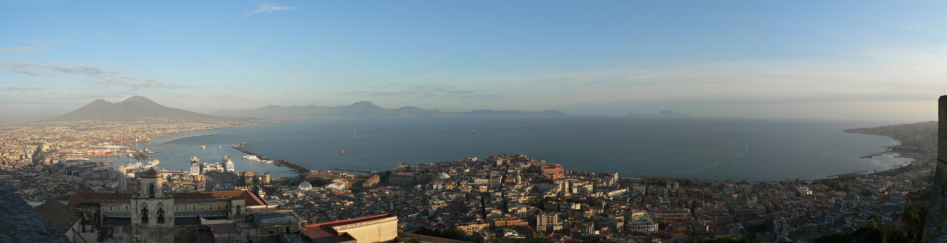 Napoli. View from Castel Sant'Elmo